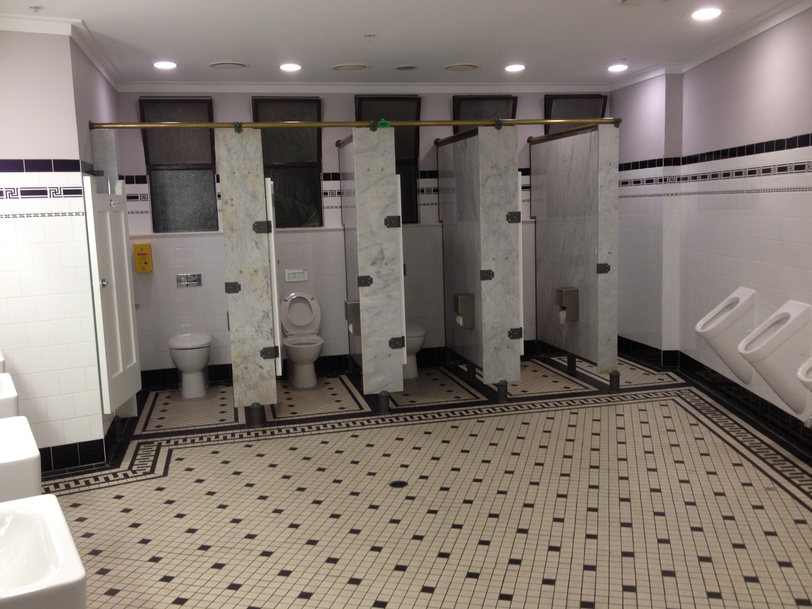 Brisbane City Hall toilets